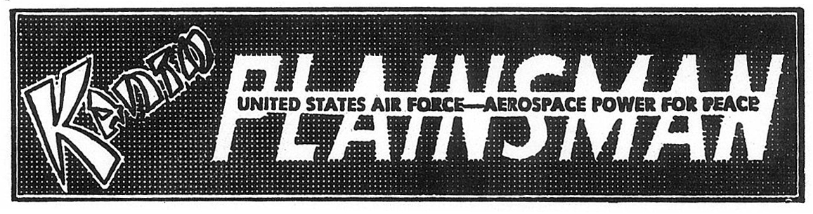 Kanto Plainsman (newspaper) banner